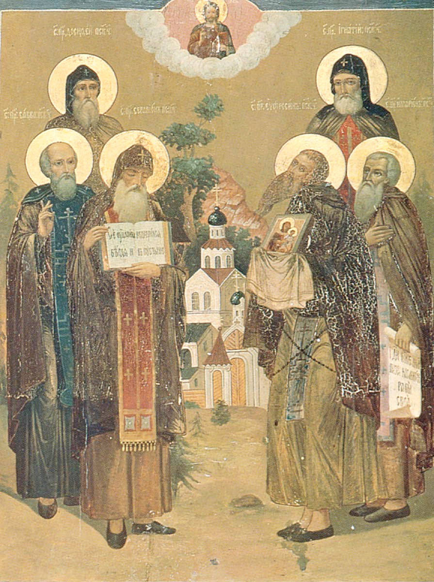 Saints of Russia